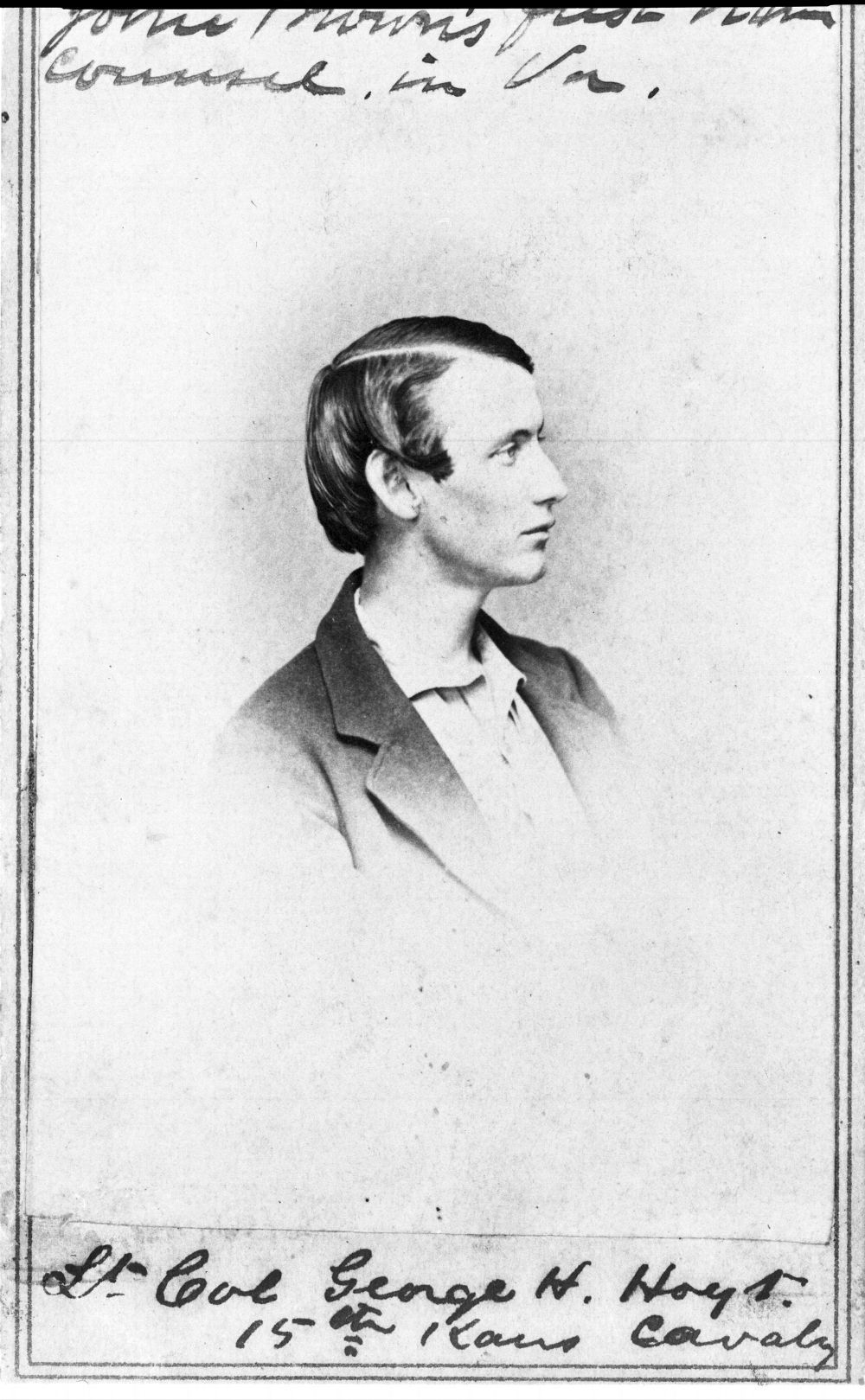 Portrait of George H. Hoyt, ca. 1864